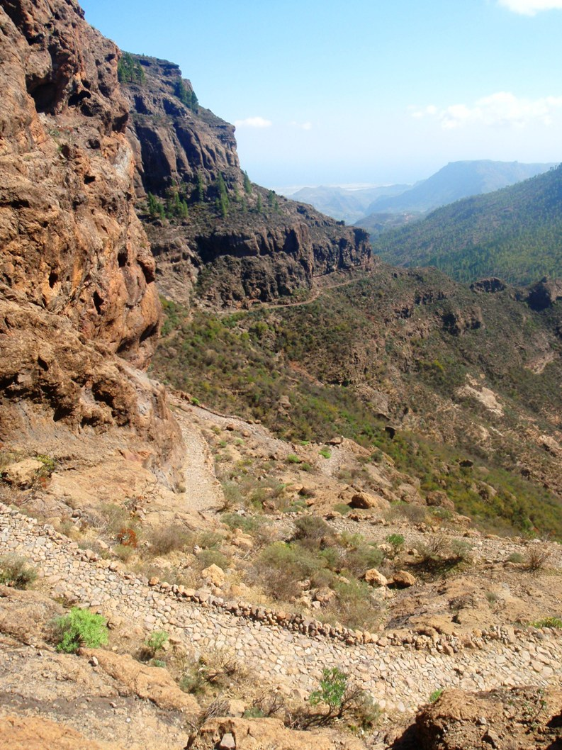 One of the wonderful, unending hiking trails that can be found on Gran Canaria.